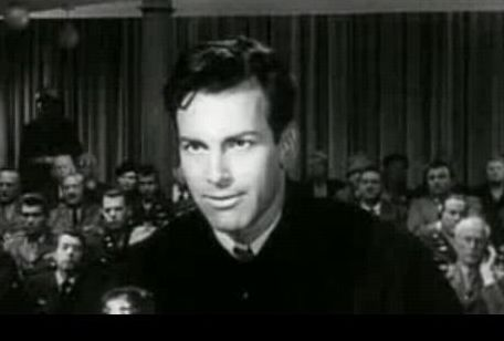 Screenshot of Maximilian Schell from the film Judgment at Nuremberg (1961)